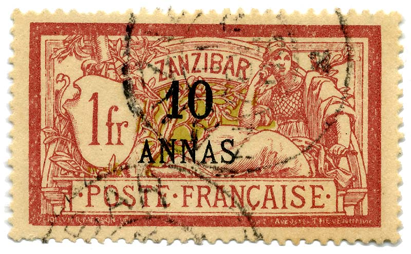 Scan of French post offices in Zanzibar 10-anna stamp of 1902